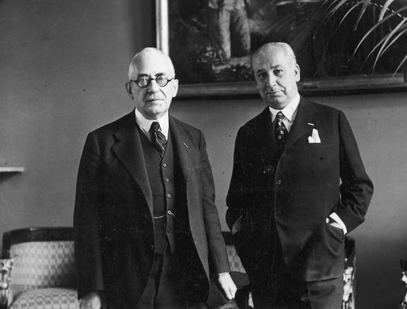 Hungarian delegation in Poland in September 1938. From left: Gusztáv Gratz, former Minister of Foreign Affairs and Boldizsár Láng, leader of the Hungarian parliamentary delegation.